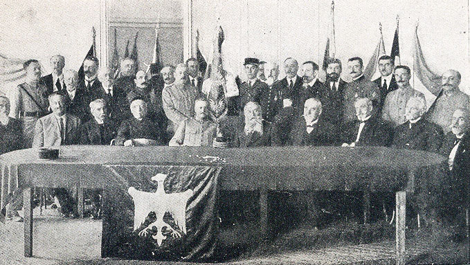 Forming of Polish military unit in Bayonne, France in the beginning of WW I